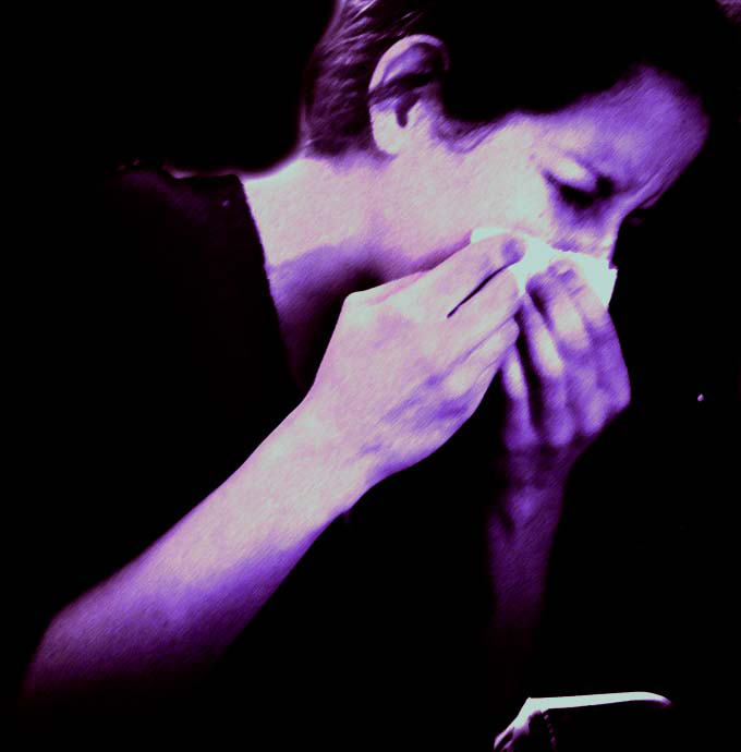 The delicate operation of catching a cold on a photo. For real. Lots and lots of Kleenex this days -sigh- Copyright@Ana Omelete ATTENTION!! INTERESTED ON MY PHOTOS? No images may be copied, transmitted, published, stored, reproduced, altered, or copy in any way without written permission by me. - NOTE FROM UPLOADER - I tried to contact this user by e-mail to check that the license she applied to the image is what she intended, since the license and this statement do not appear compatible. However, I never received a reply.